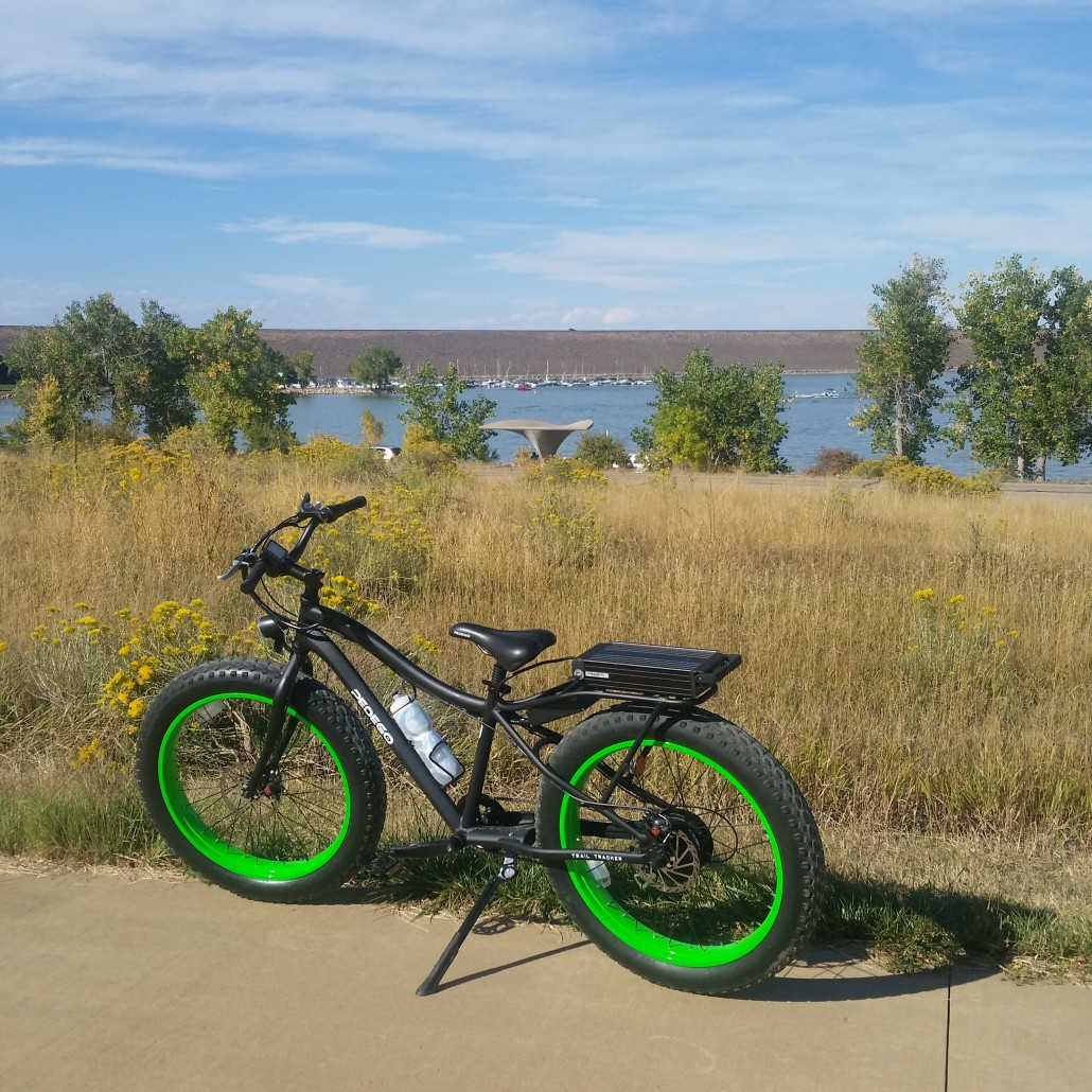 Pedego electric bike "Trail Tracker"